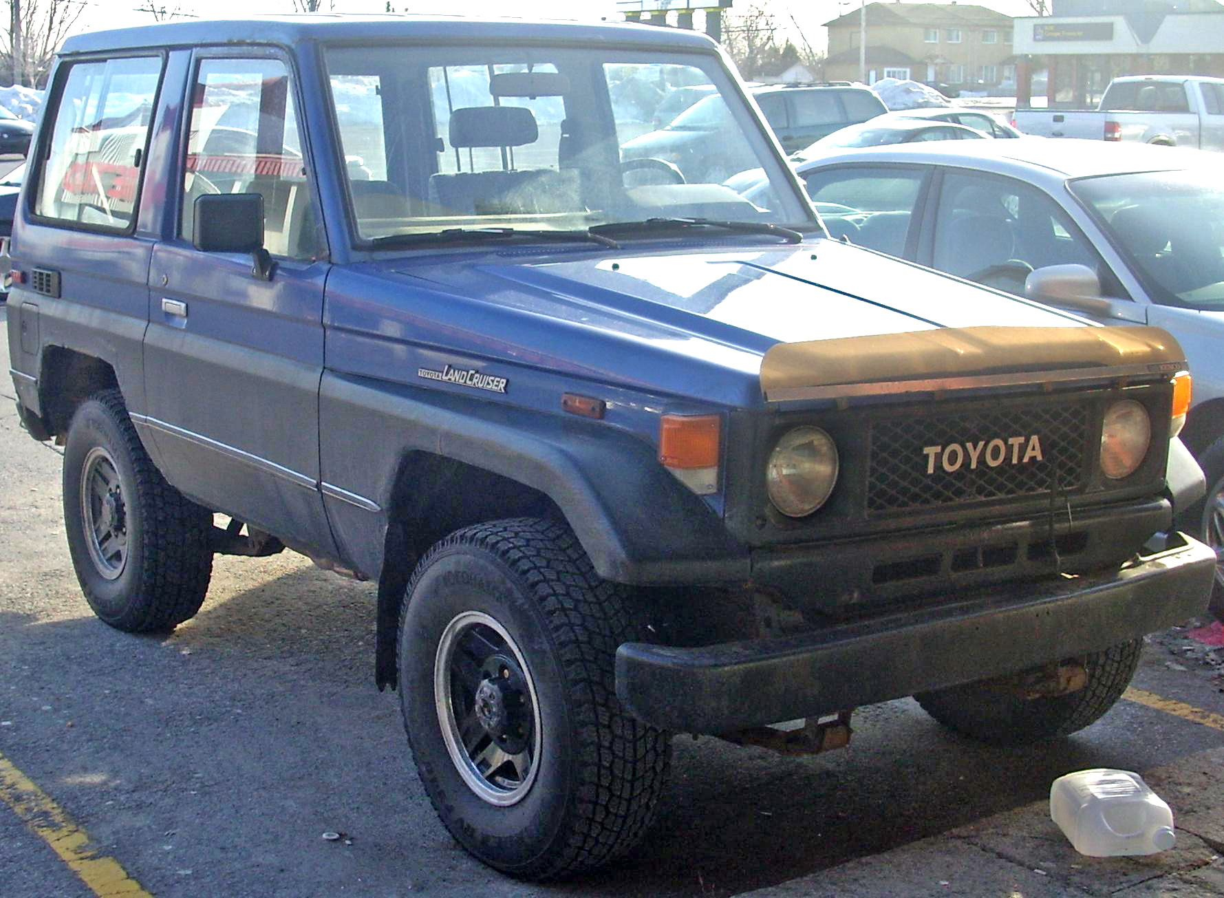 Toyota Land Cruiser photographed in Montreal, Quebec, Canada.